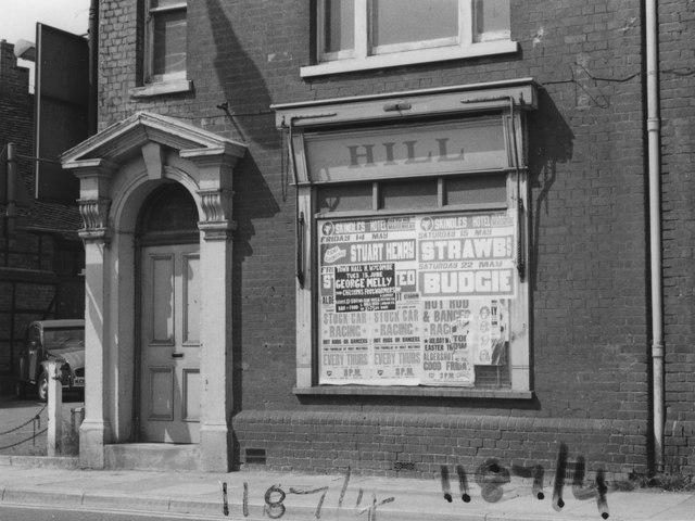 A disused building on Bell Street in 1976 almost opposite Bell Street Motors I don't remember who "Hill" was. The fly posters are advertising: The Strawbs, Budgie and Stuart Henry of Radio Luxembourg performing at Skindles Hotel, Maidenhead, George Melly & The Feetwarmers at Highwycombe town hall and stock car racing at Aldershot.